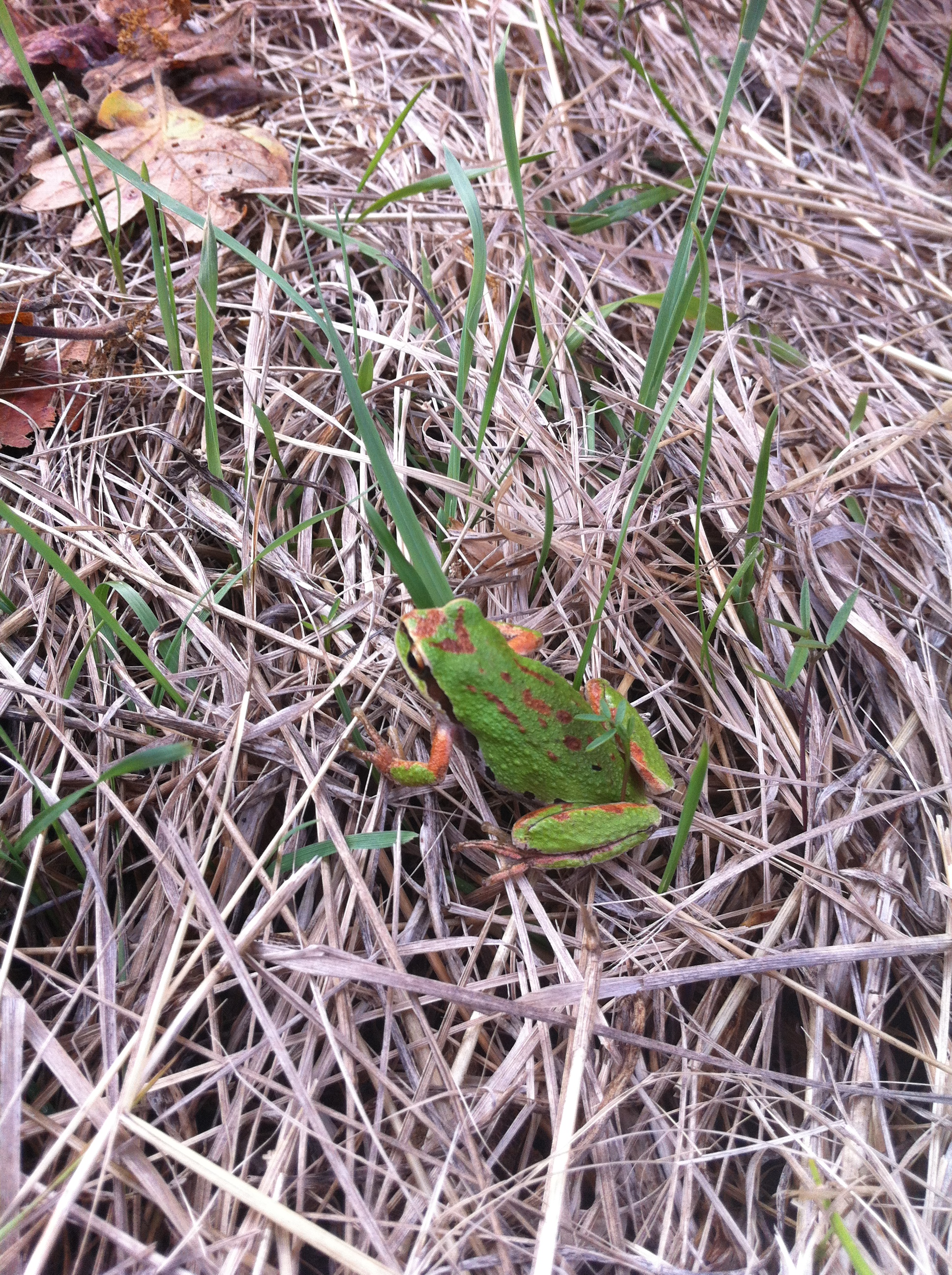 This tree frog is exhibiting a blended color morph between brown and green, as fall sets into its native Garry oak meadow near Lake Cowichan, British Columbia.